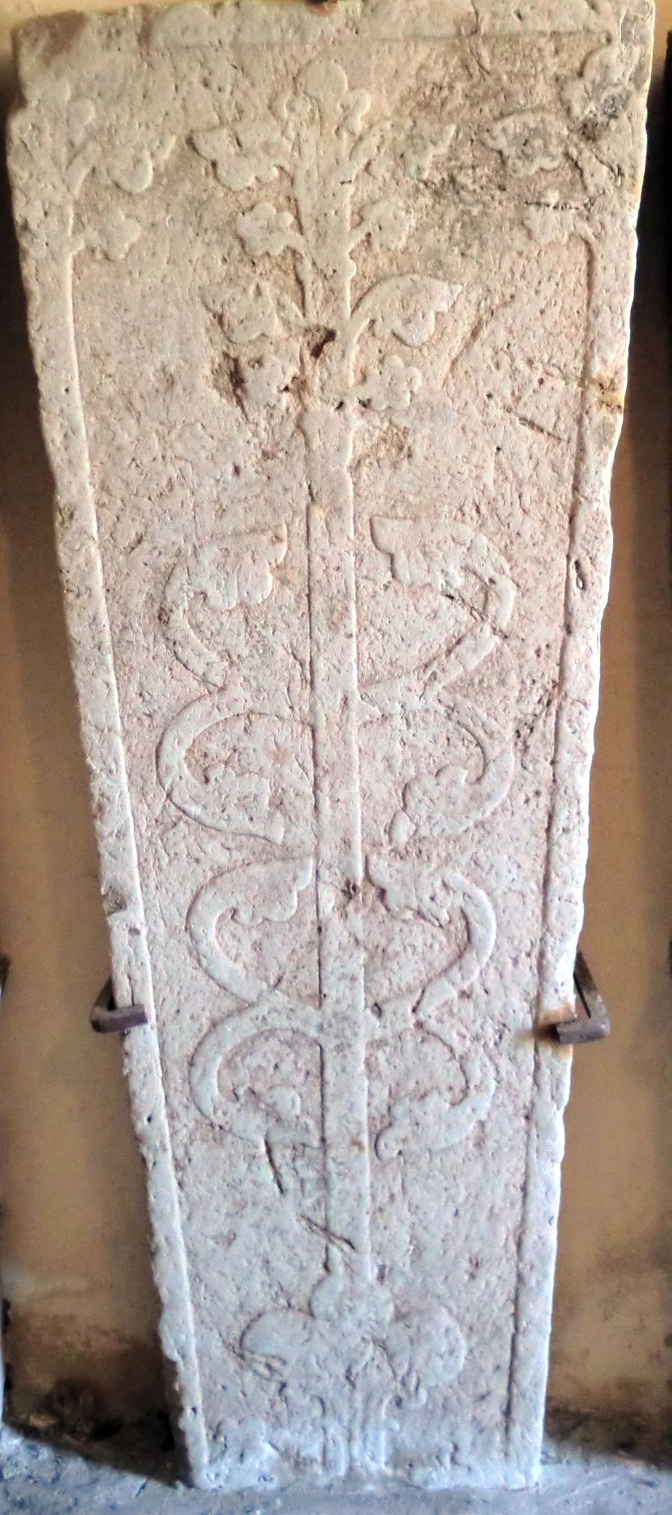 Tree of life slab from Bjurum parish church, Falköping, Sweden